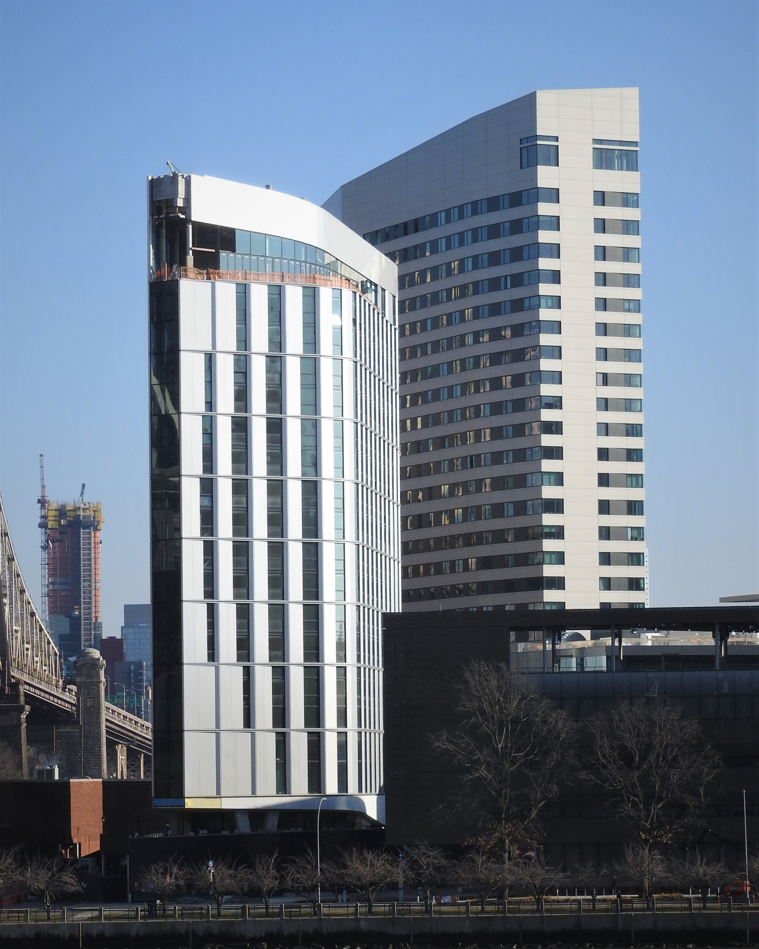 Looking east across the river at two Cornell Tech buildings